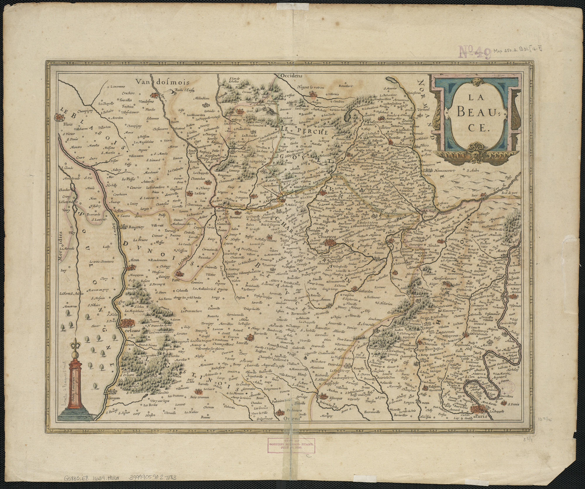 Zoom into this map at . Author: Hondius, Hendrik Publisher: Hondius, Hendrik Date: 1639 Location: Beauce (France), Eure-et-Loir department (France) Dimension 36x48cm Scale: ca. 1:360,000 Call Number: G5833.E8 1639 .H66x